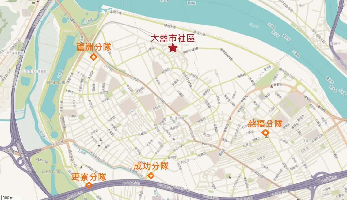 Da xi shi community fire, fire and fire station location